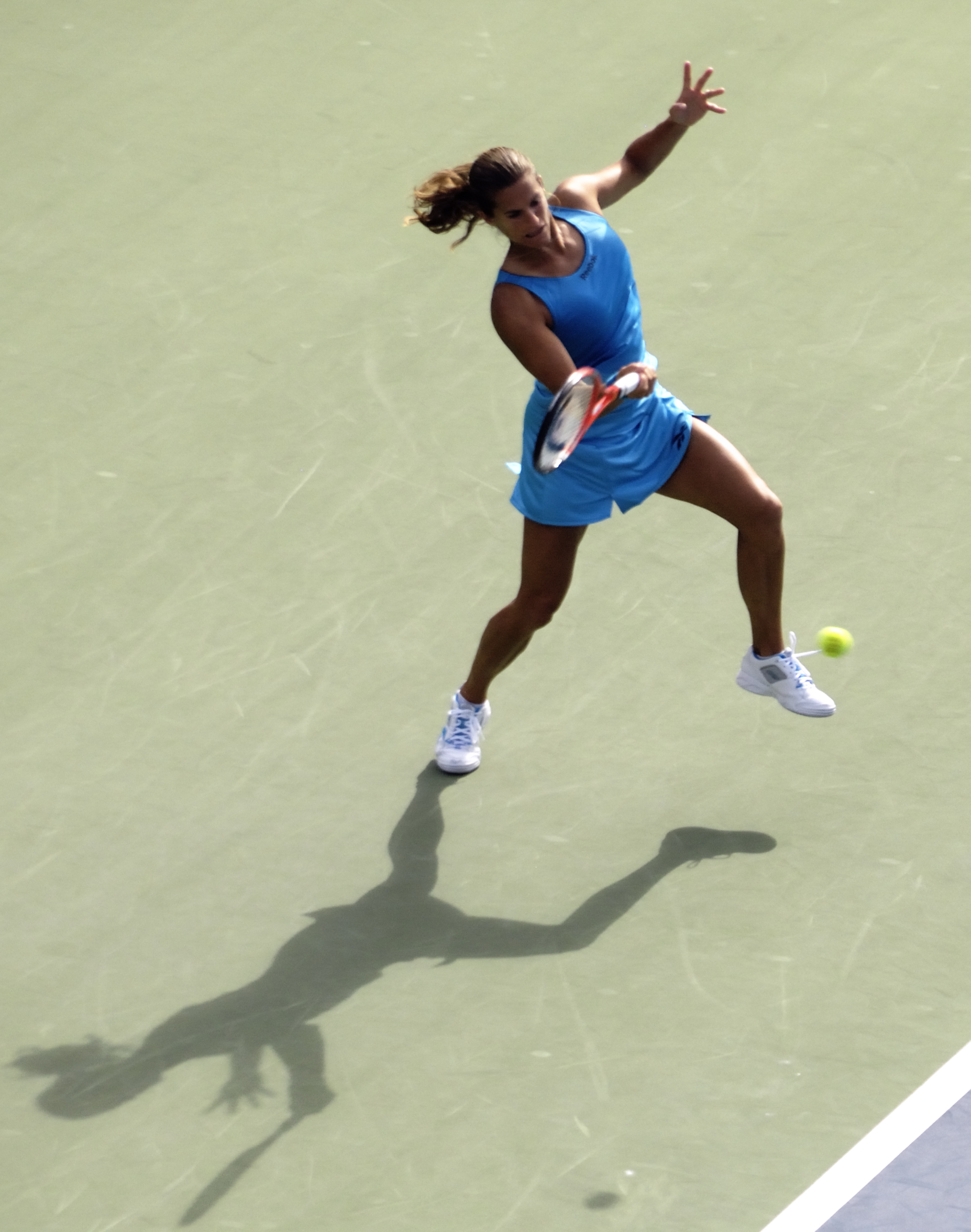 Amélie Mauresmo at the 2009 US Open